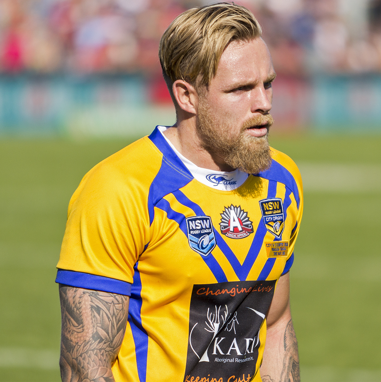 Blake Austin playing for City in the City vs Country Origin game at McDonalds Park in Wagga Wagga.